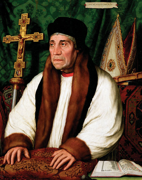 Portrait of William Warham